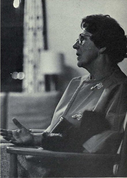 Photograph Marie Hartwig